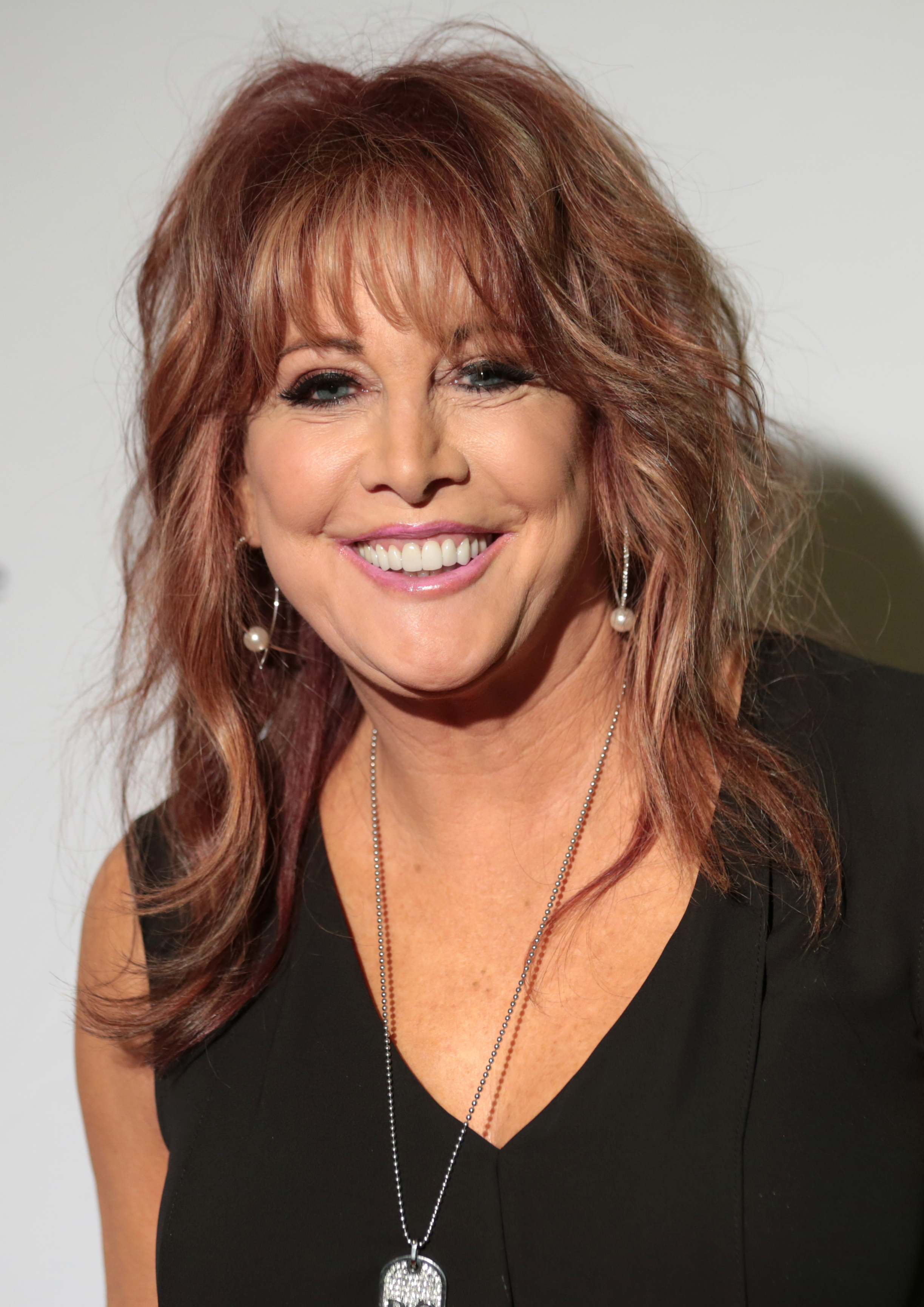 Nancy Lieberman at Celebrity Fight Night XXIV in Phoenix, Arizona.